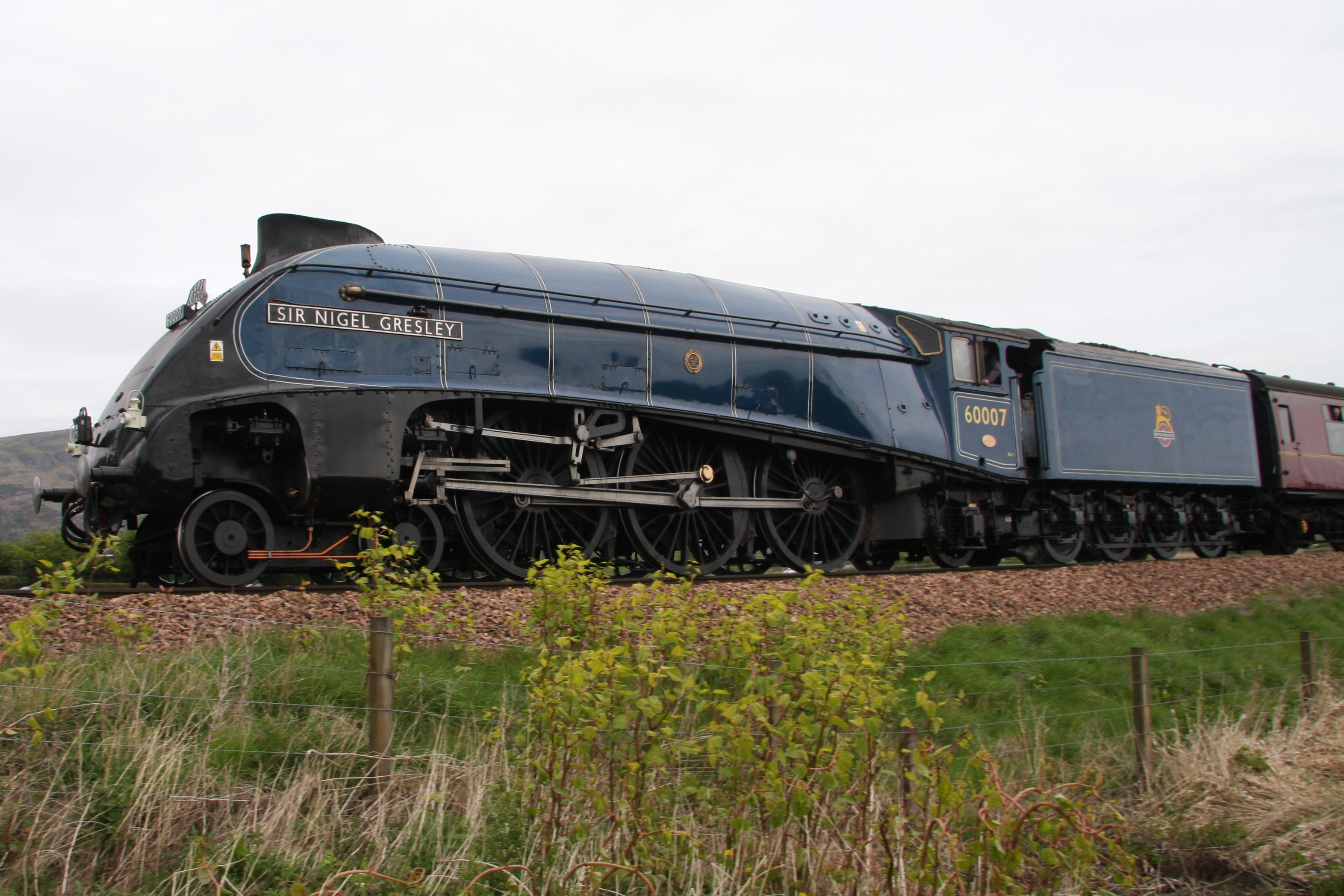 LNER Class A4 4498 (BR 60007) Sir Nigel Gresley doing the Forth Circle route approaching Stirling from Alloa